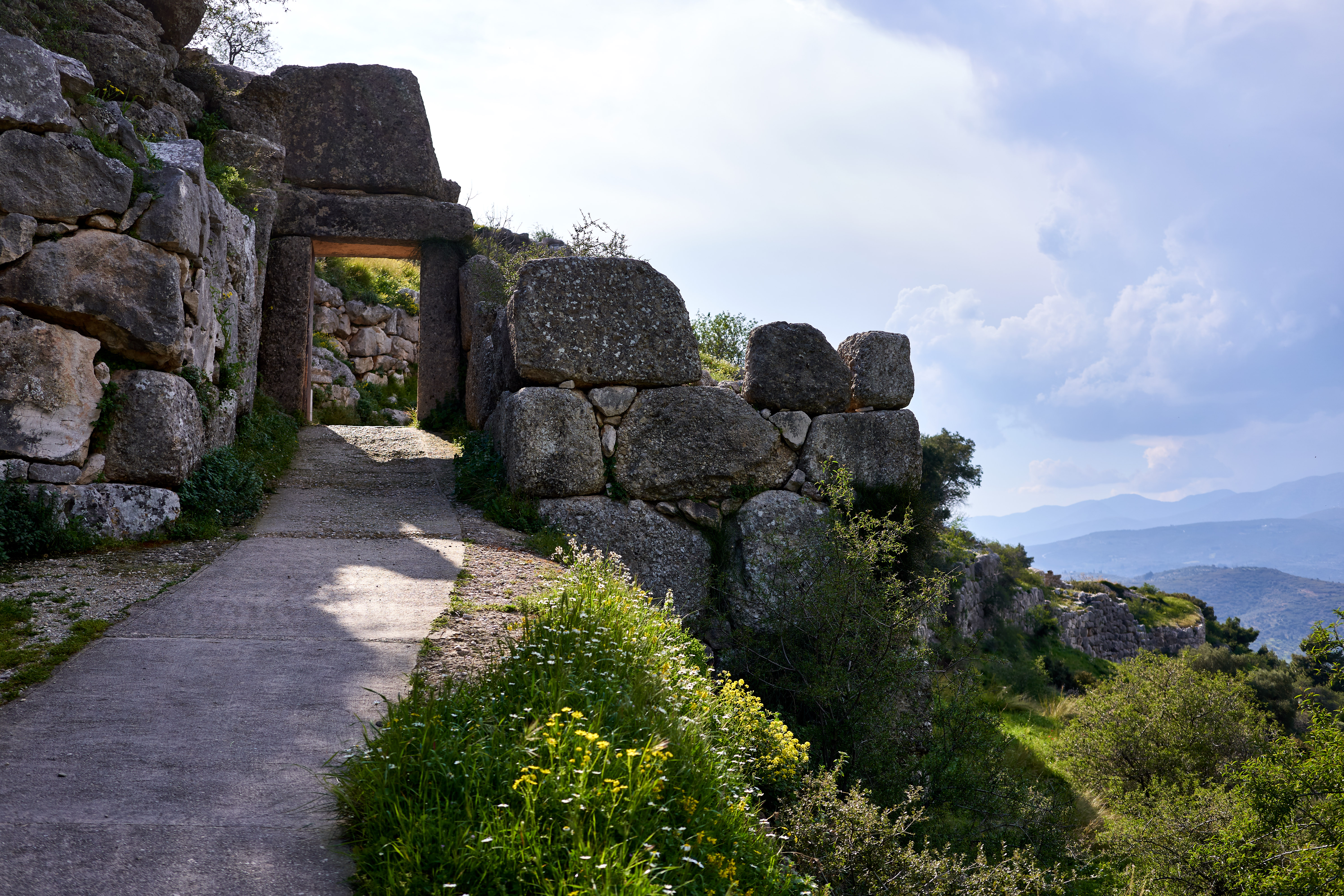 The ancient citadel (acropolis) of Mycenae. The North Gate. Argolis, Greece.